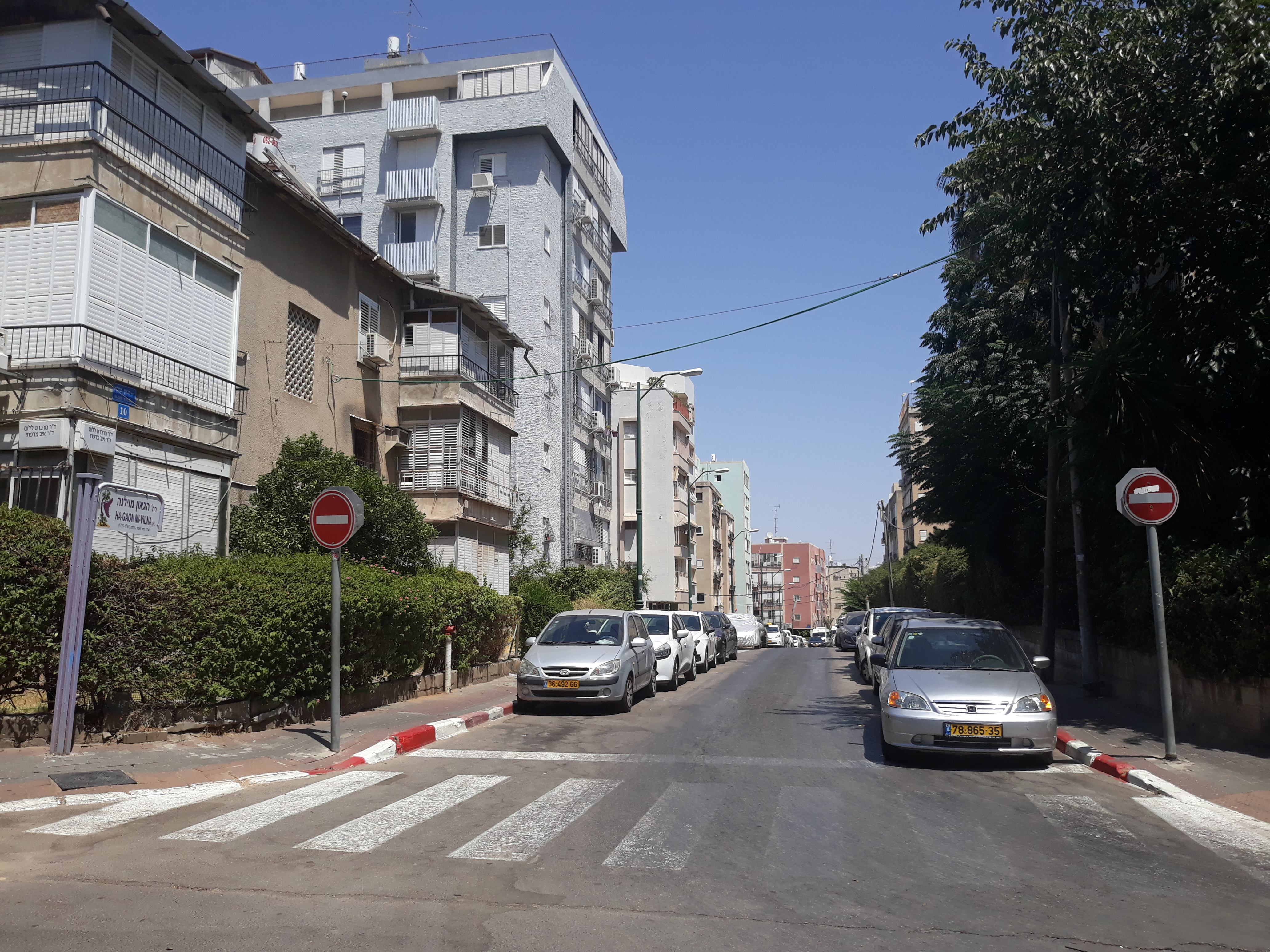 Ha-Gaon mi-Vilna Street in Rishon LeZion